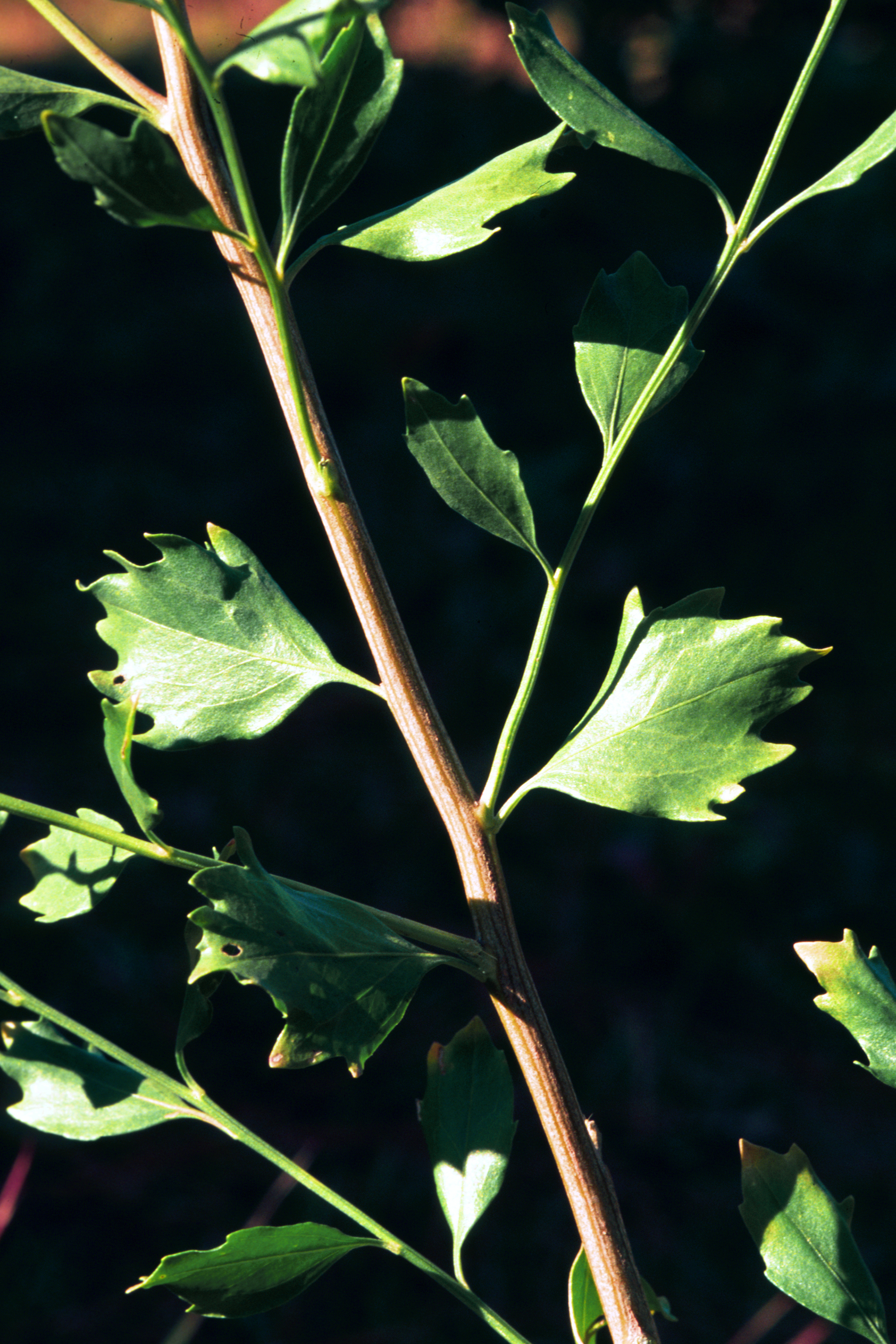 Eastern baccharis - Baccharis halimifolia L. - October. Photo from Forest Plants of the Southeast and Their Wildlife Uses by J.H. Miller and K.V. Miller, published by The University of Georgia Press in cooperation with the Southern Weed Science Society. United States